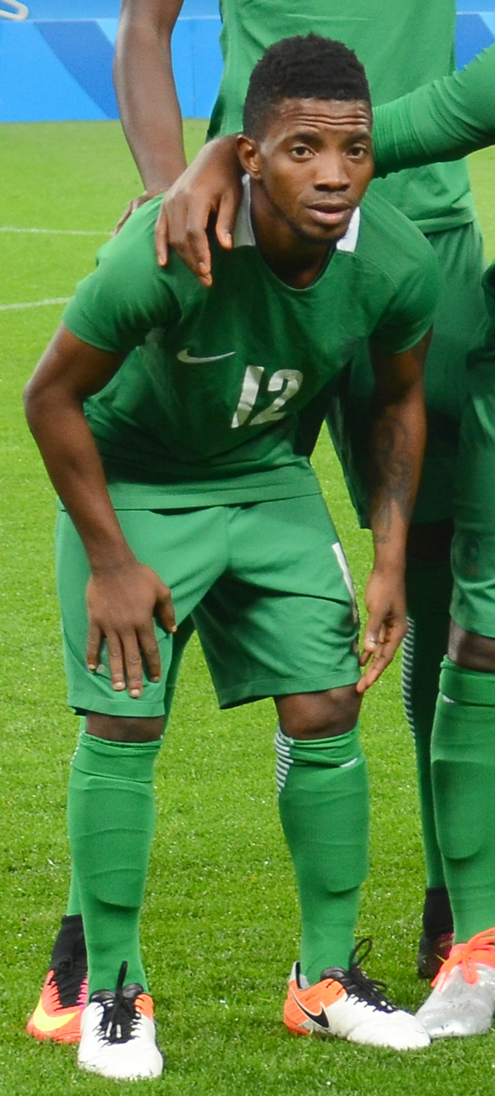 São Paulo - Colômbia vence a Nigéria por 2x0 na Arena Corinthians (Rovena Rosa/Agência Brasil)